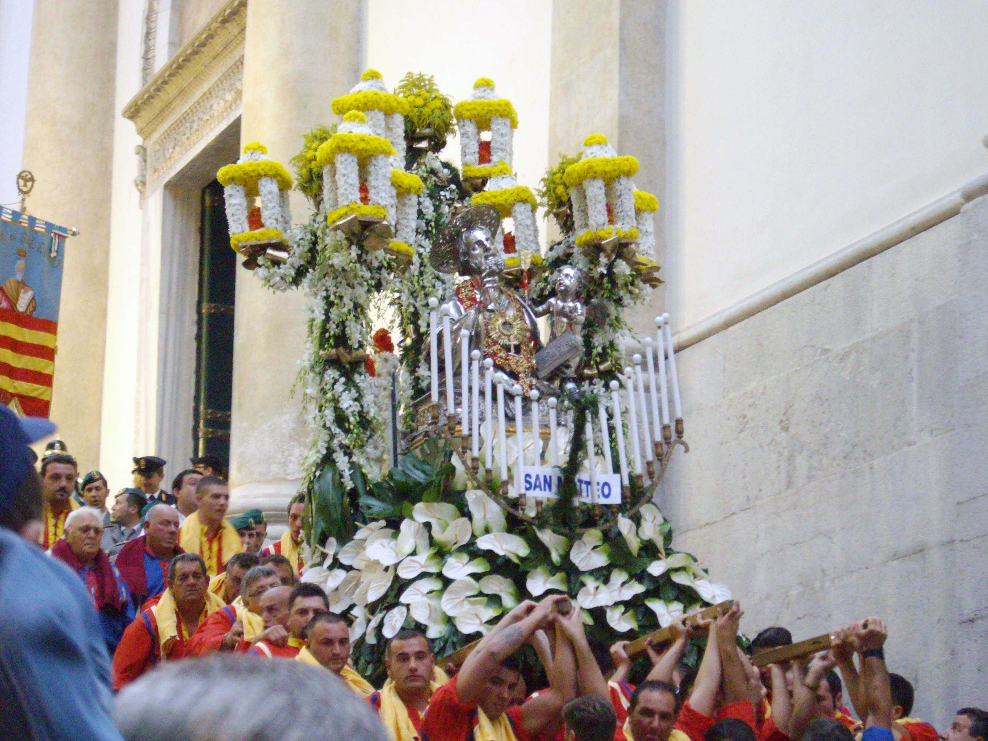 S.Matthew in Salerno